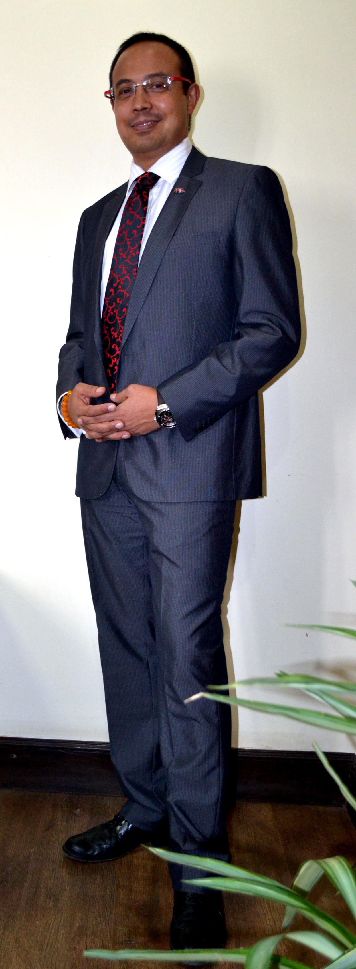 Chief Executive Officer of Mega Bank Nepal Limited, Nepal..